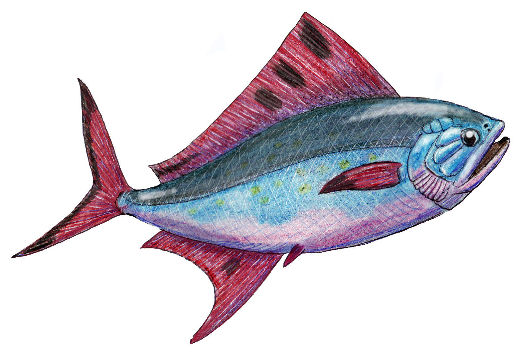 Pentanogmius (Bananogmius) evolutus, bony fish from Cretaceous Niobrara Sea